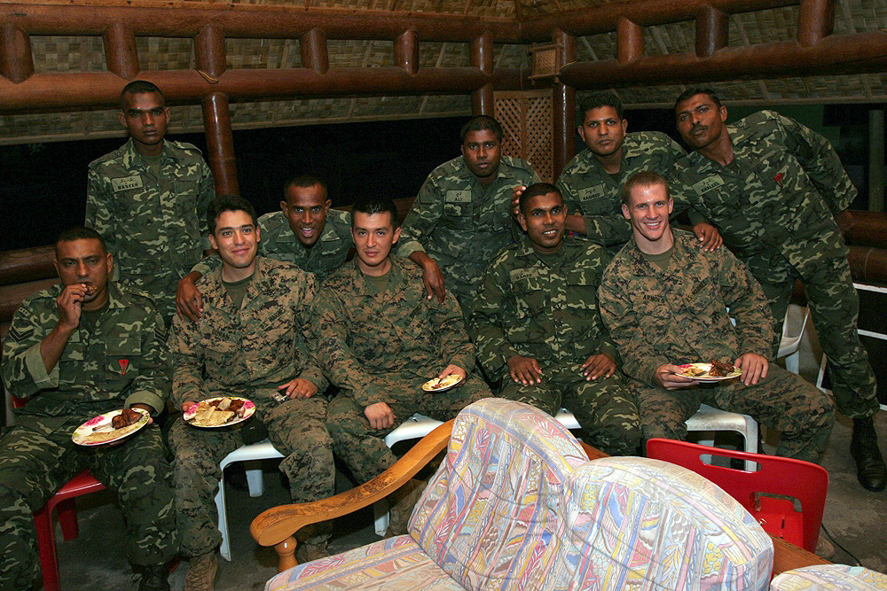 REGIONAL HEADQUARTERS KADHOO, LAAMU ATOLL, Maldive's soldiers of the 20th Special Task Force, Maldives National Defence Force share a night of food, music and dancing with Marines and sailors with Combat Logistics Battalion 11 and Battalion Landing Team 1st Battalion, 5th Marine Regiment, 11th Marine Expeditionary Unit (Special Operations Capable) during a social here, December 19. Members of the 11th MEU (SOC), Camp Pendleton, Calif., took part in bi-lateral training with their MNDF counterparts and shared each other's culture. (Official U.S. Marine Corps photo by Cpl. Scott M. Biscuiti)(Released)